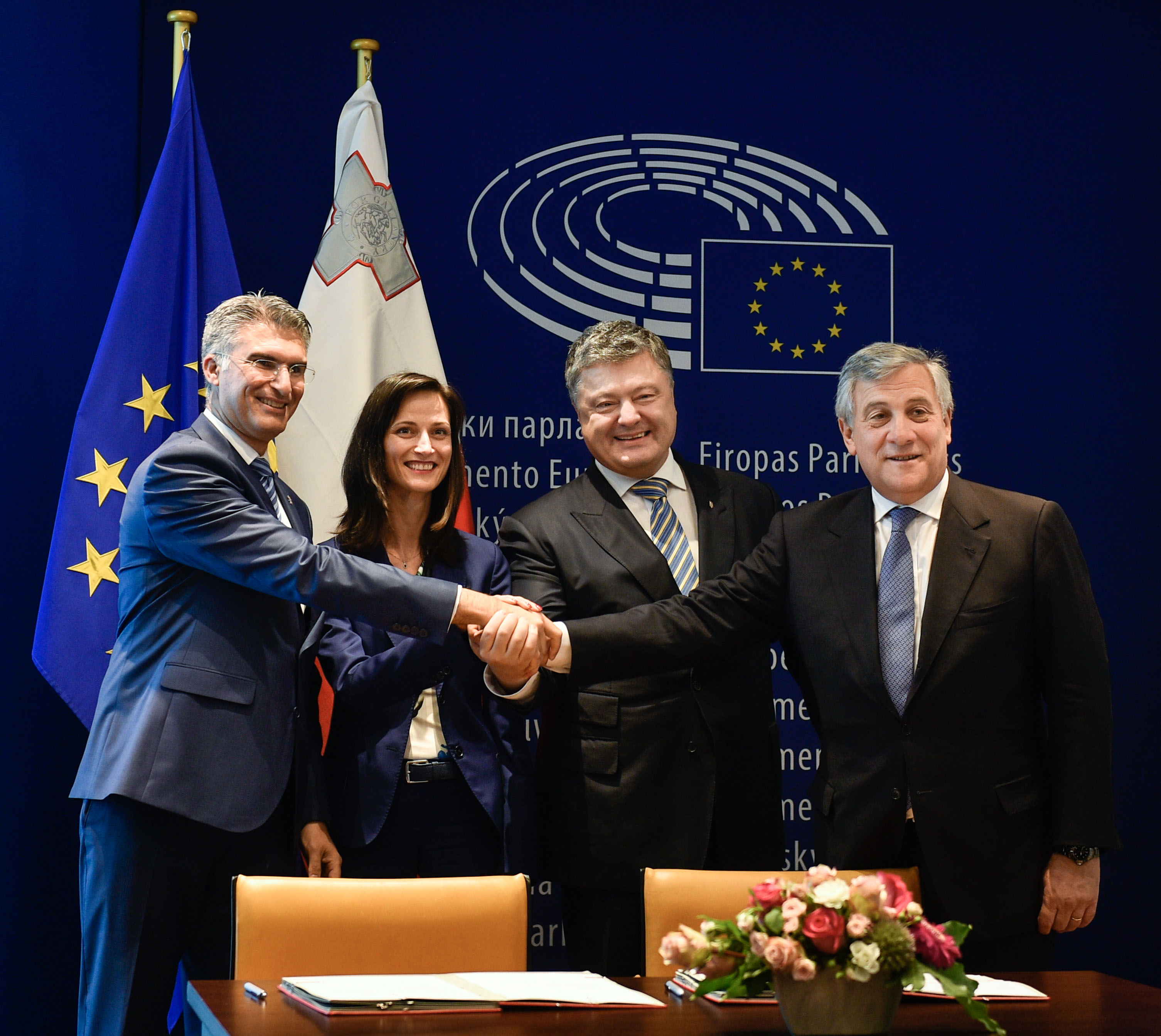 Solemn ceremony of signing the document on visa liberalisation with the EU for Ukrainians.